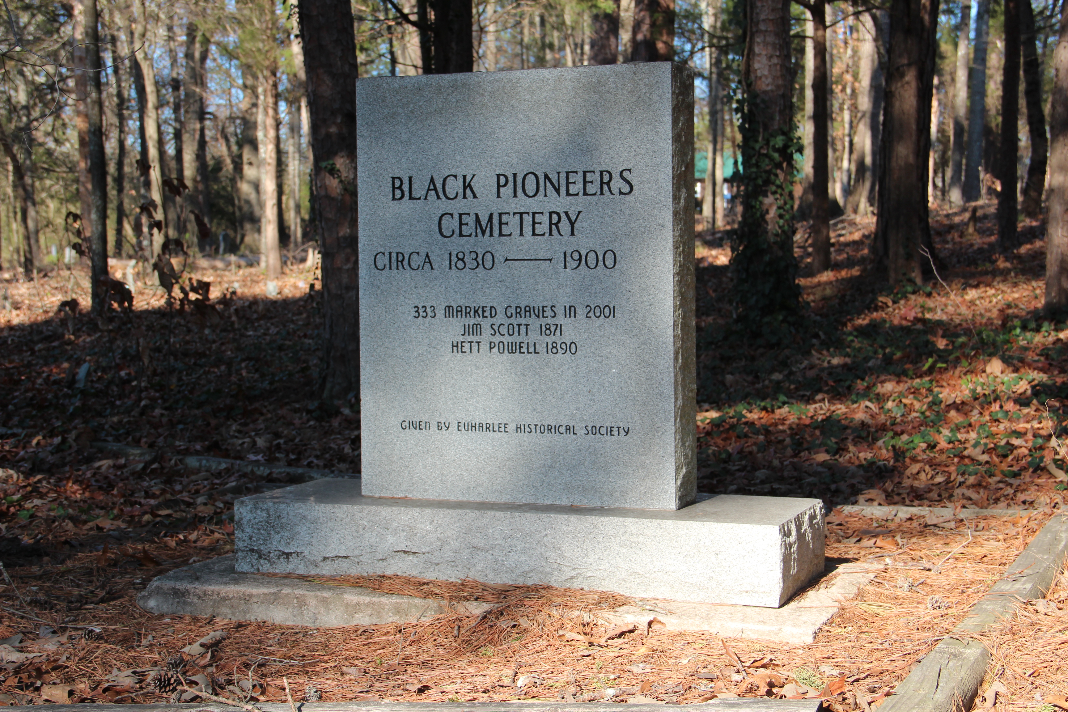 Stone marker for the Black Pioneers Cemetery in Euharlee